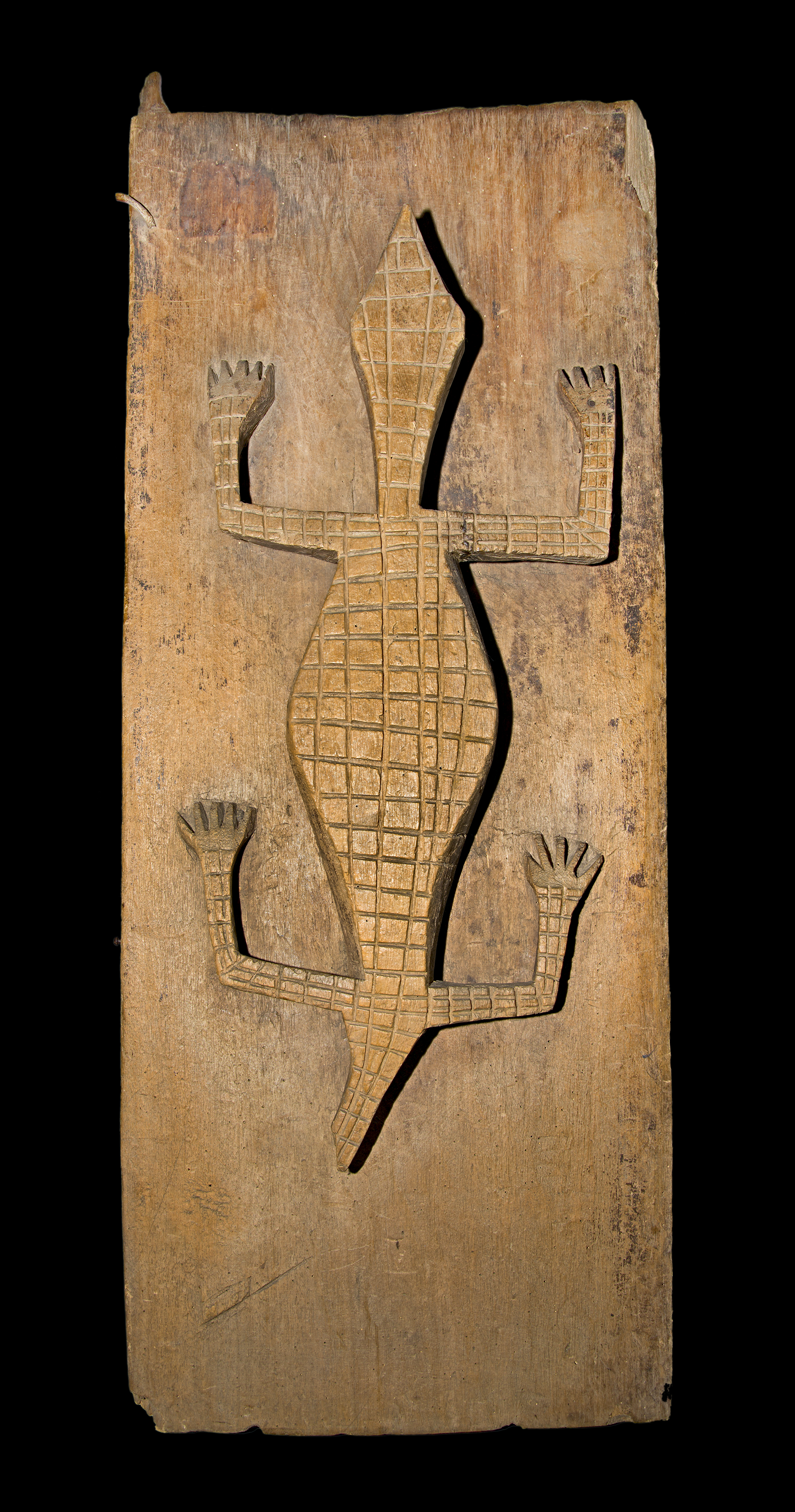 Door with a carved crocodile. It was exhibited at the World Exhibition in Paris in 1900. Population : Sakalava people ( Madagascar) Collector and collection: Aristide Maria Date of collection: the nineteenth century (4th Quarter) Collection Method: Military Shipping Materials: Wood Size : 109x44x14 cm